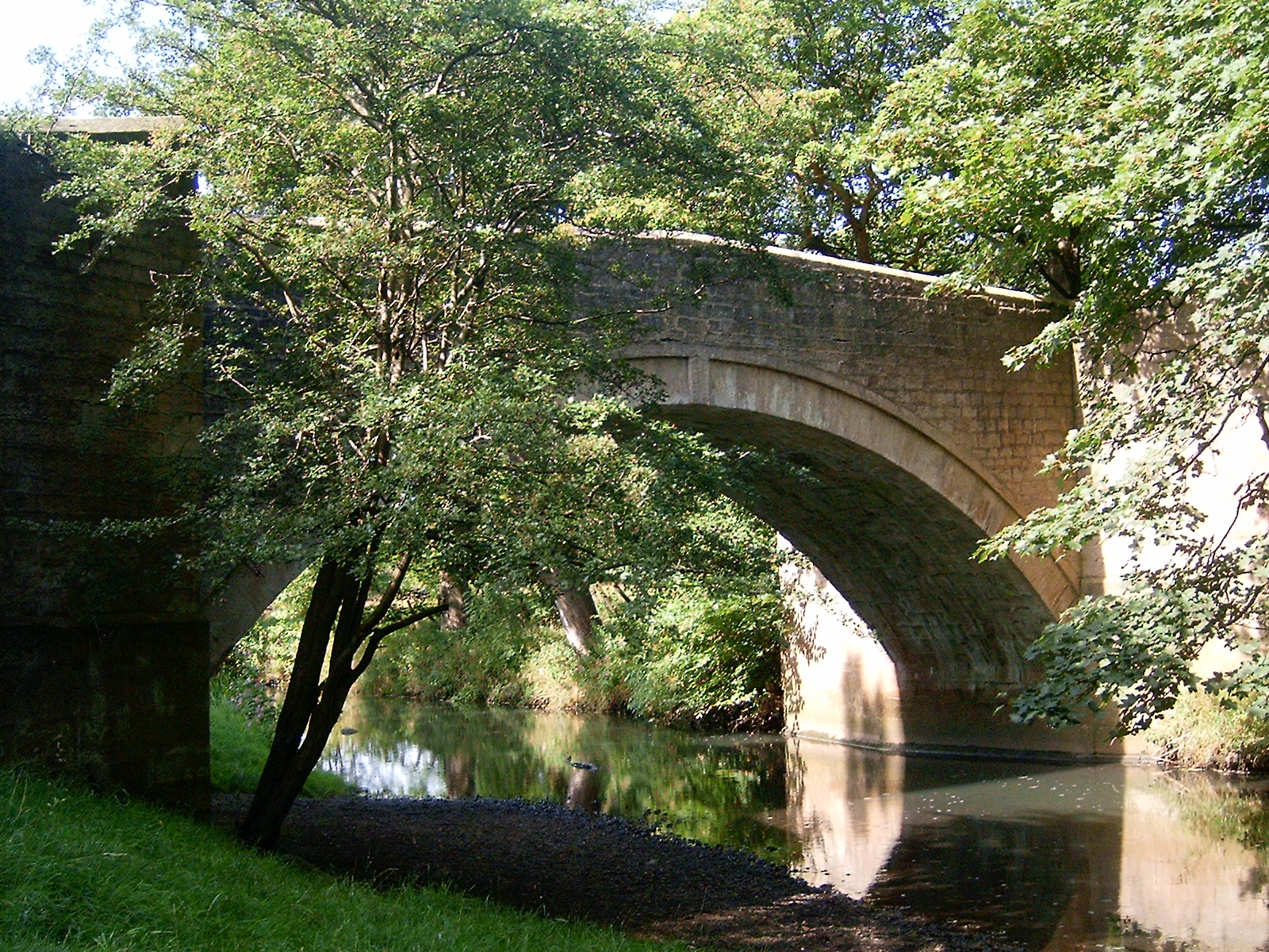 The River Gaunless in the grounds of Auckland Castle, a short distance before it merges with the River Wear